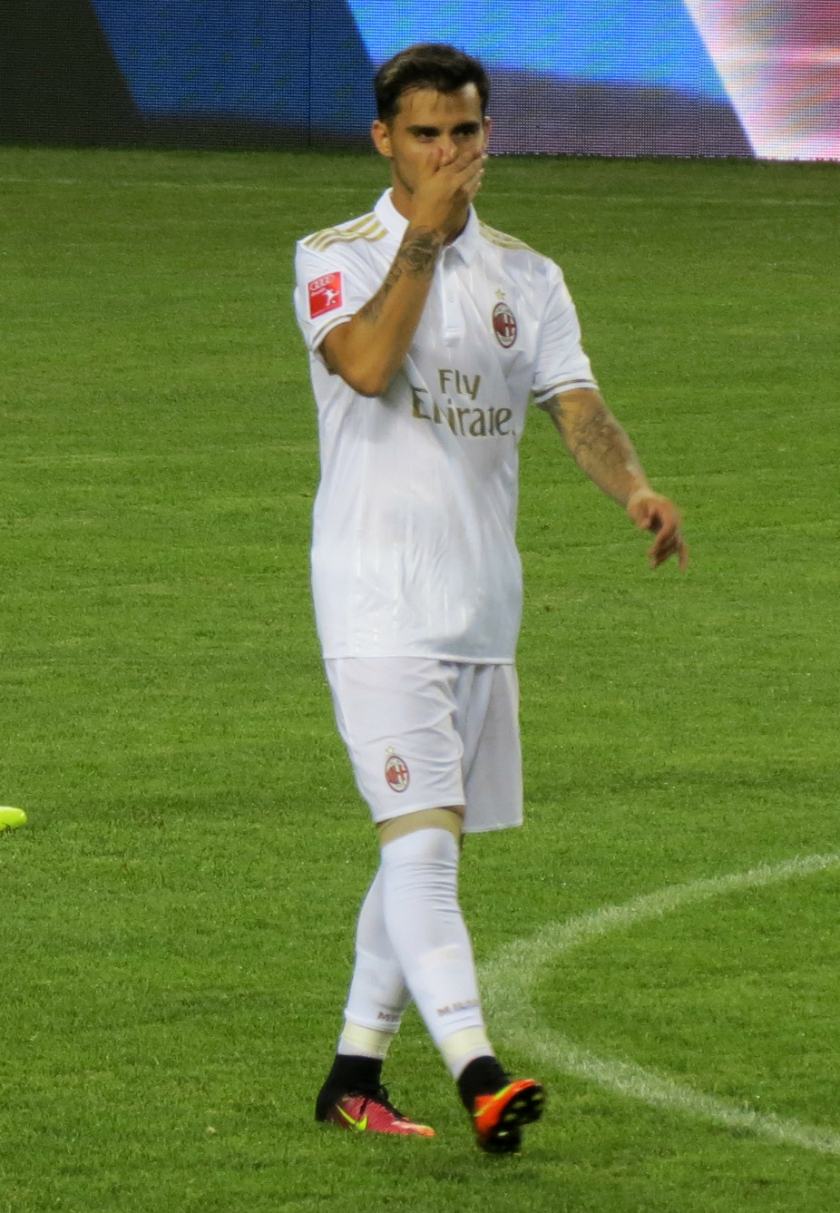 Suso, Bayern Munich v AC Milan, International Champions Cup 2016